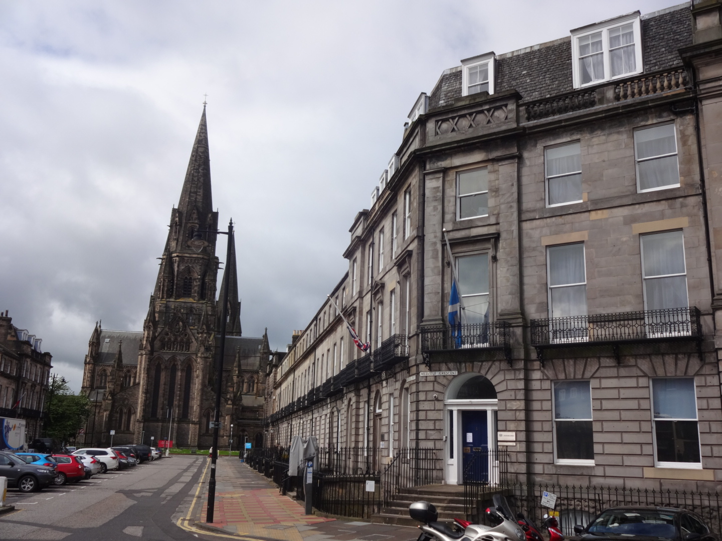 Henry Peel-Ritchie VC - Birthplace - 1Melville Crescent, Edinburgh.